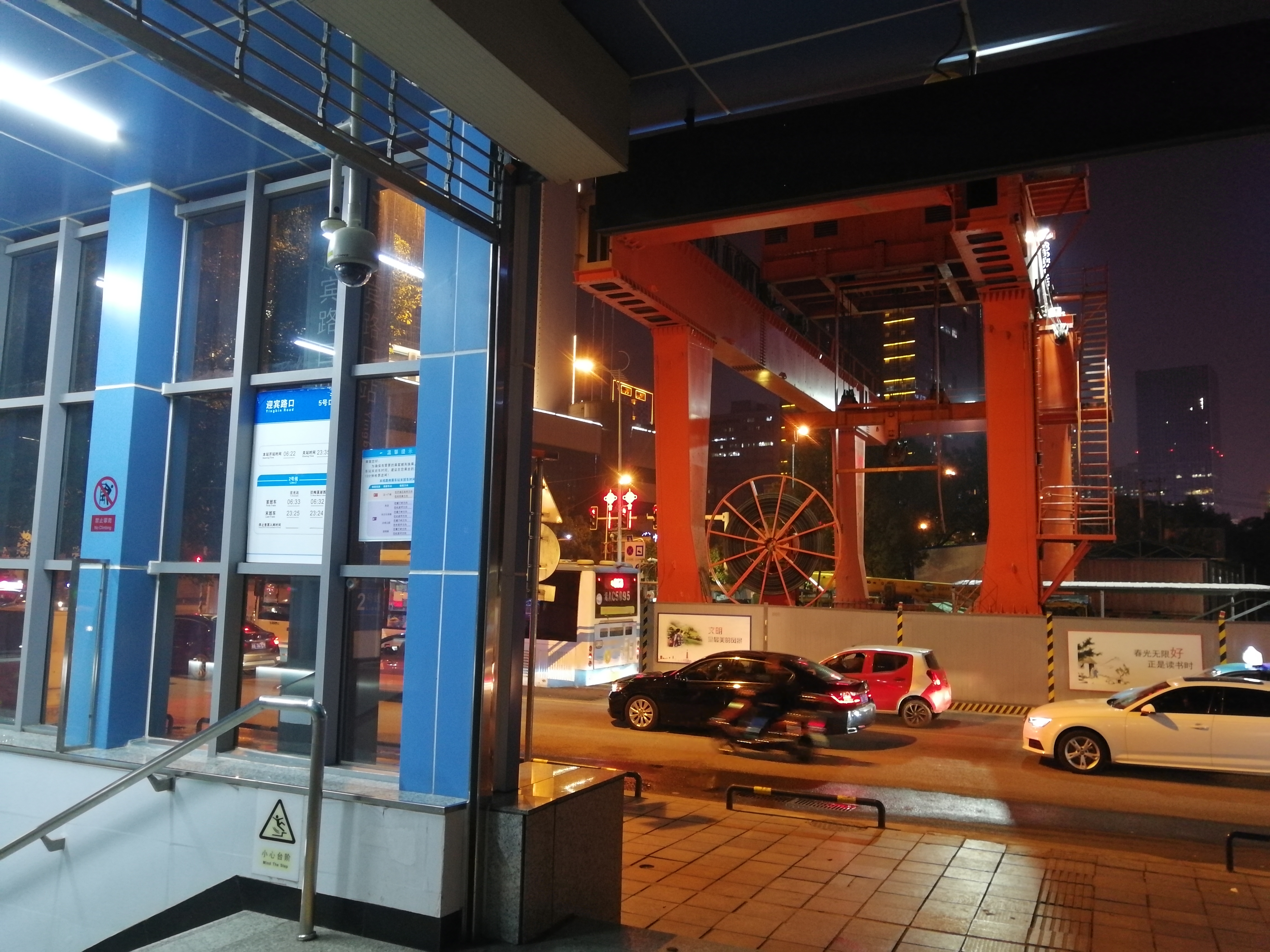 Yingbin Road Station (Line 6) under construction